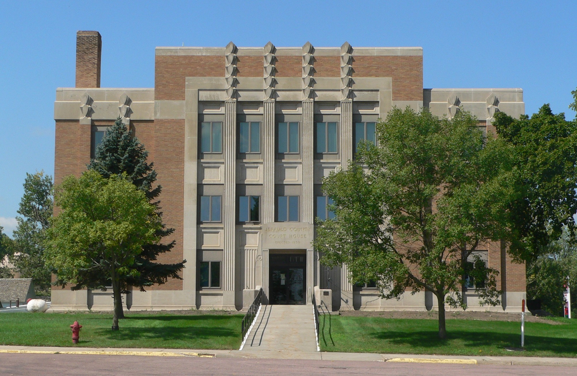 Jerauld County courthouse, located at the junction of 1st Street SE and Wallace Ave S in Wessington Springs, South Dakota; seen from the east, across Wallace.